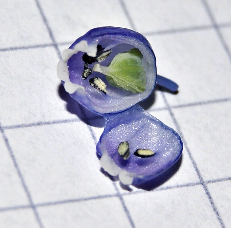 Muscari botryoides, Germany; flower, opened.